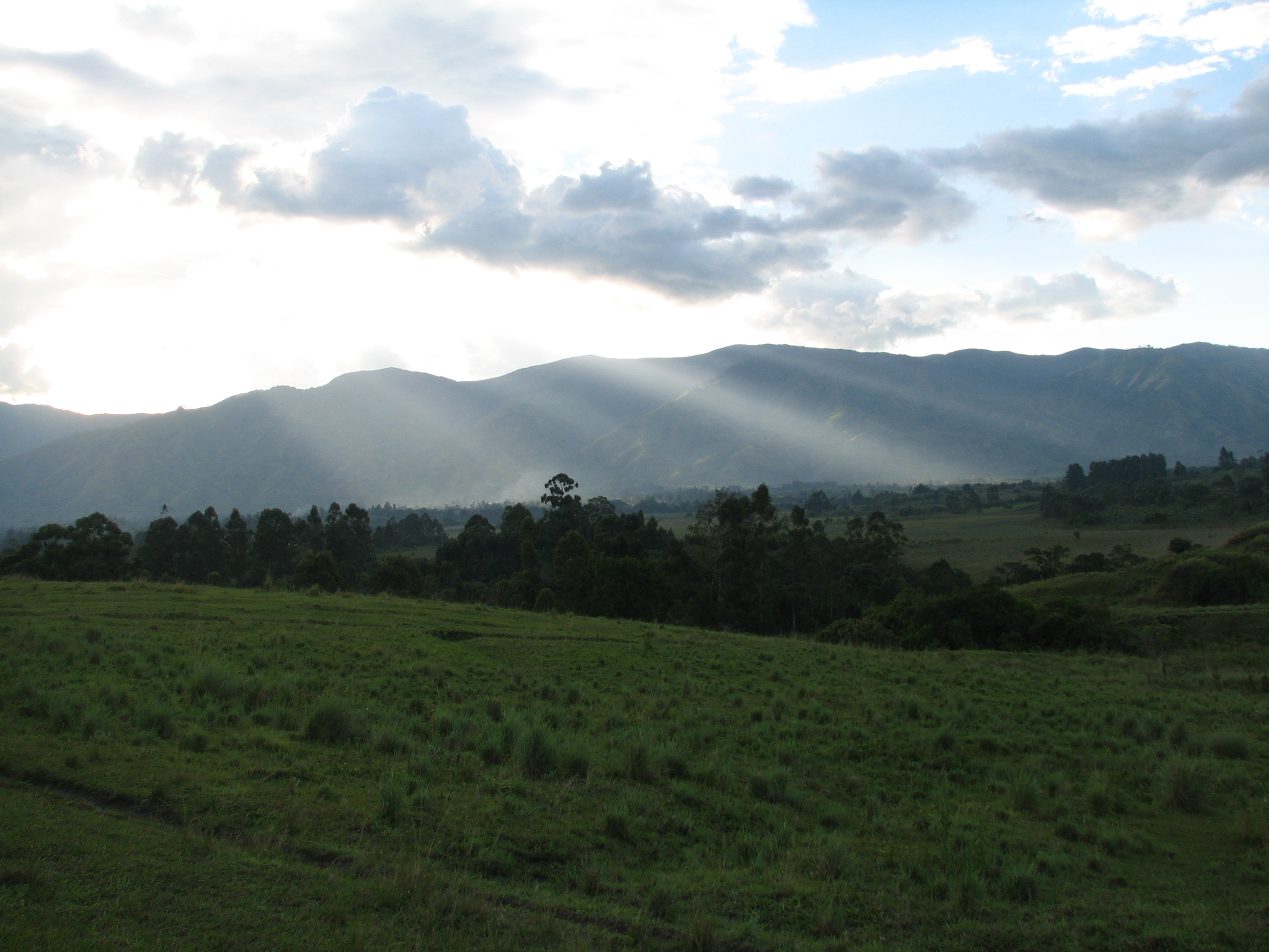 Lower slopes of the Rwenzori Mountain Range viewed from the crater lakes near Nyakasura Caves (Fort Portal)